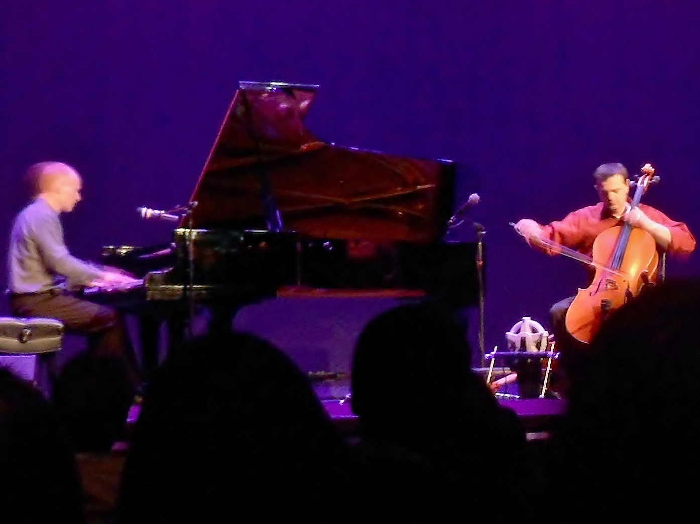 Piano Guys in concert